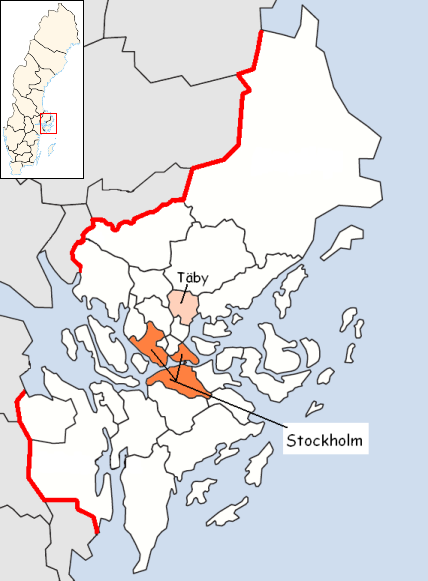 Täby Municipality in Stockholm County Designed by me. Mere outlines are a PD source from